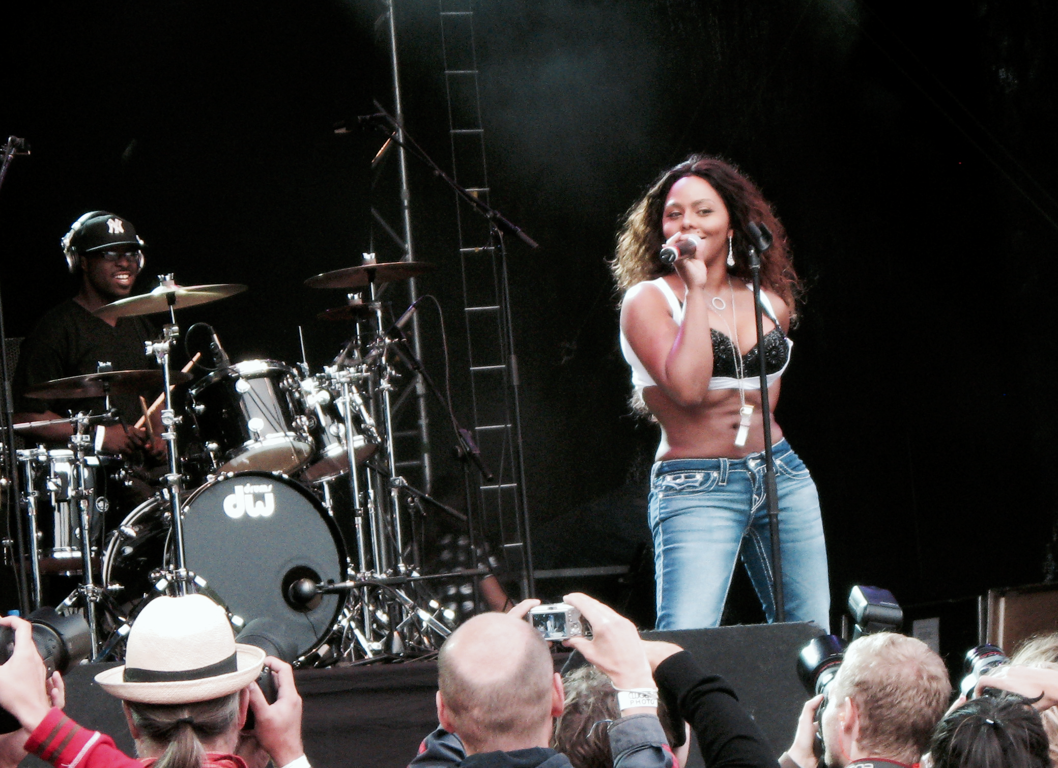 Lil Kim performing 2008